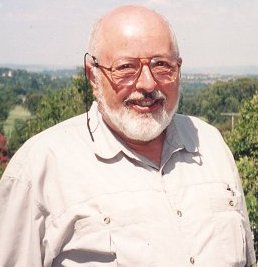 Brian Barder in Pretoria